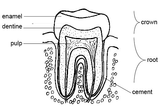 By Ruth Lawson. Otago Polytechnic.